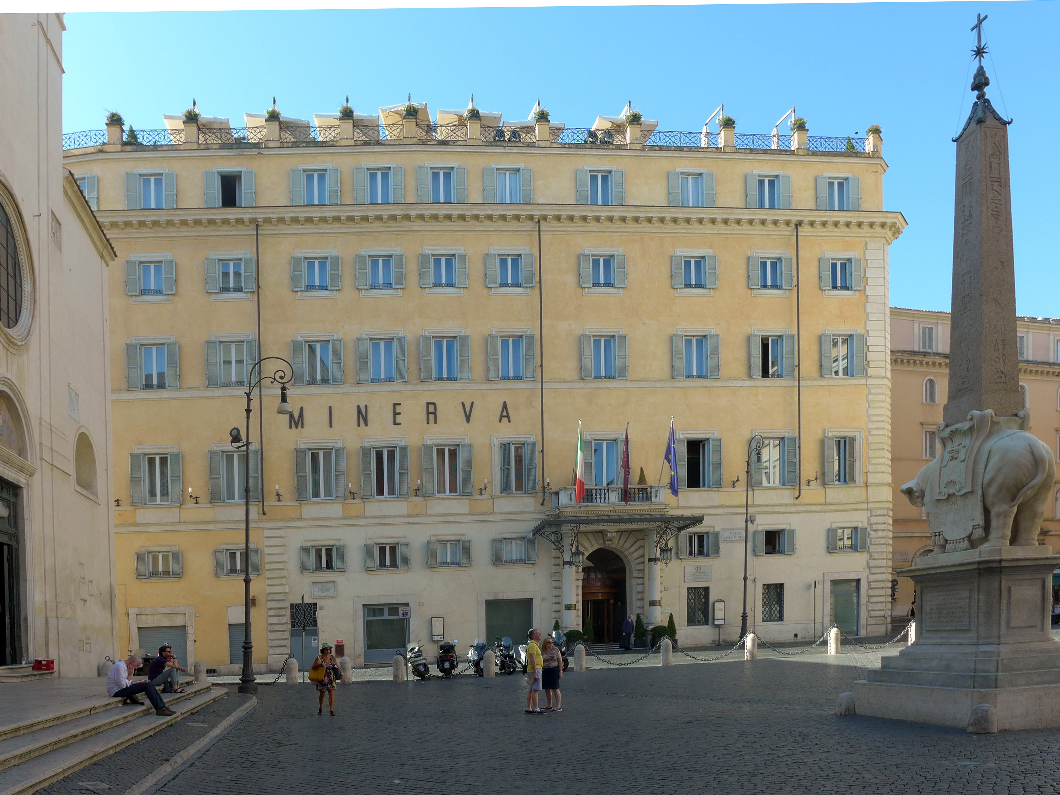 Piazza della Minerva (Rome), Grandhotel della Minerva